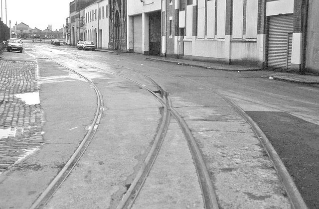 Old harbour railway, Belfast. See 736267. This one shows an earlier time when there was more of the old harbour railway (and surrounding area in Prince's Dock Street (Prince's Dock Road on the Google map)) in existence. The harbour fence can be seen at top left.